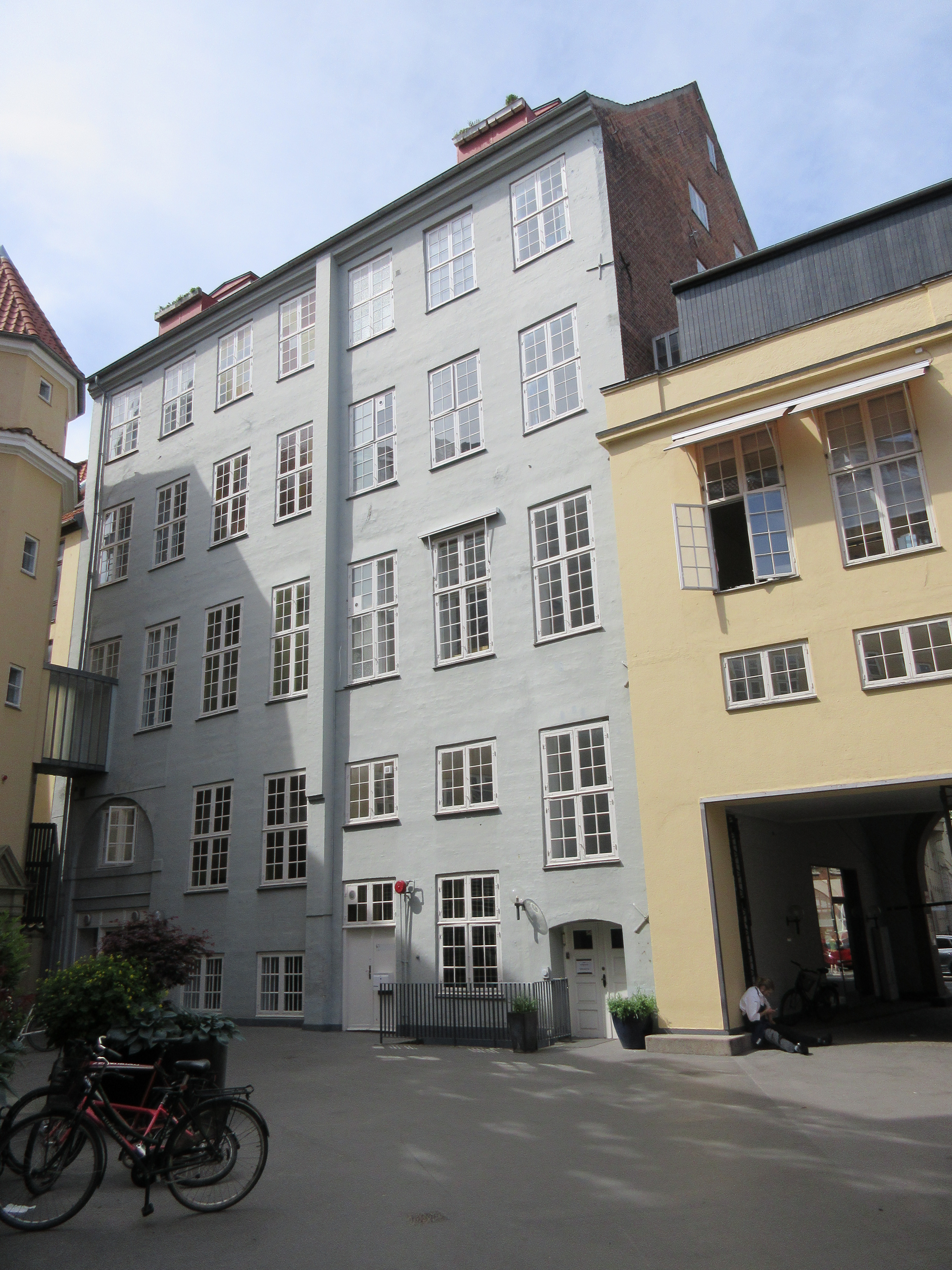 The rear side of Esplanaden 56 in Copenhagen, Denmark